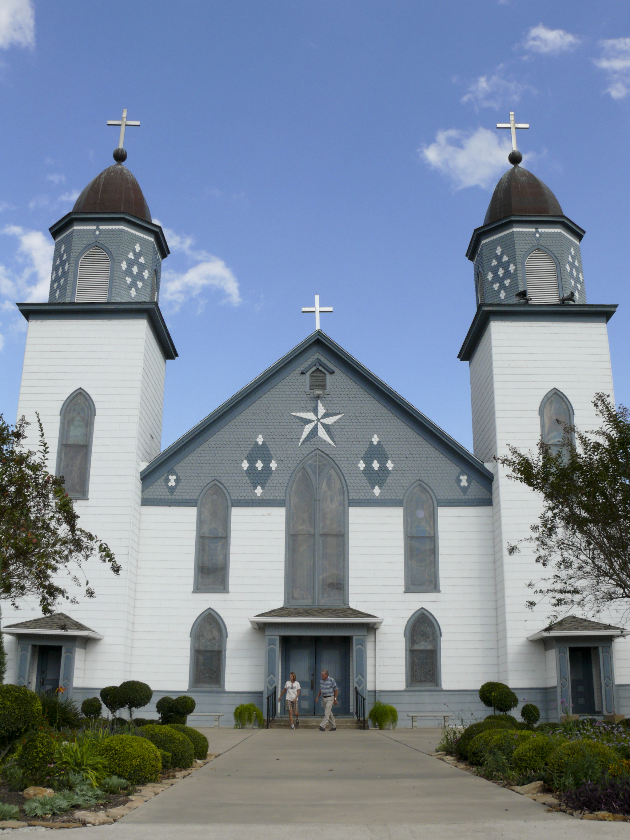 Front view of the Church of the Visitation, Westphalia, TX